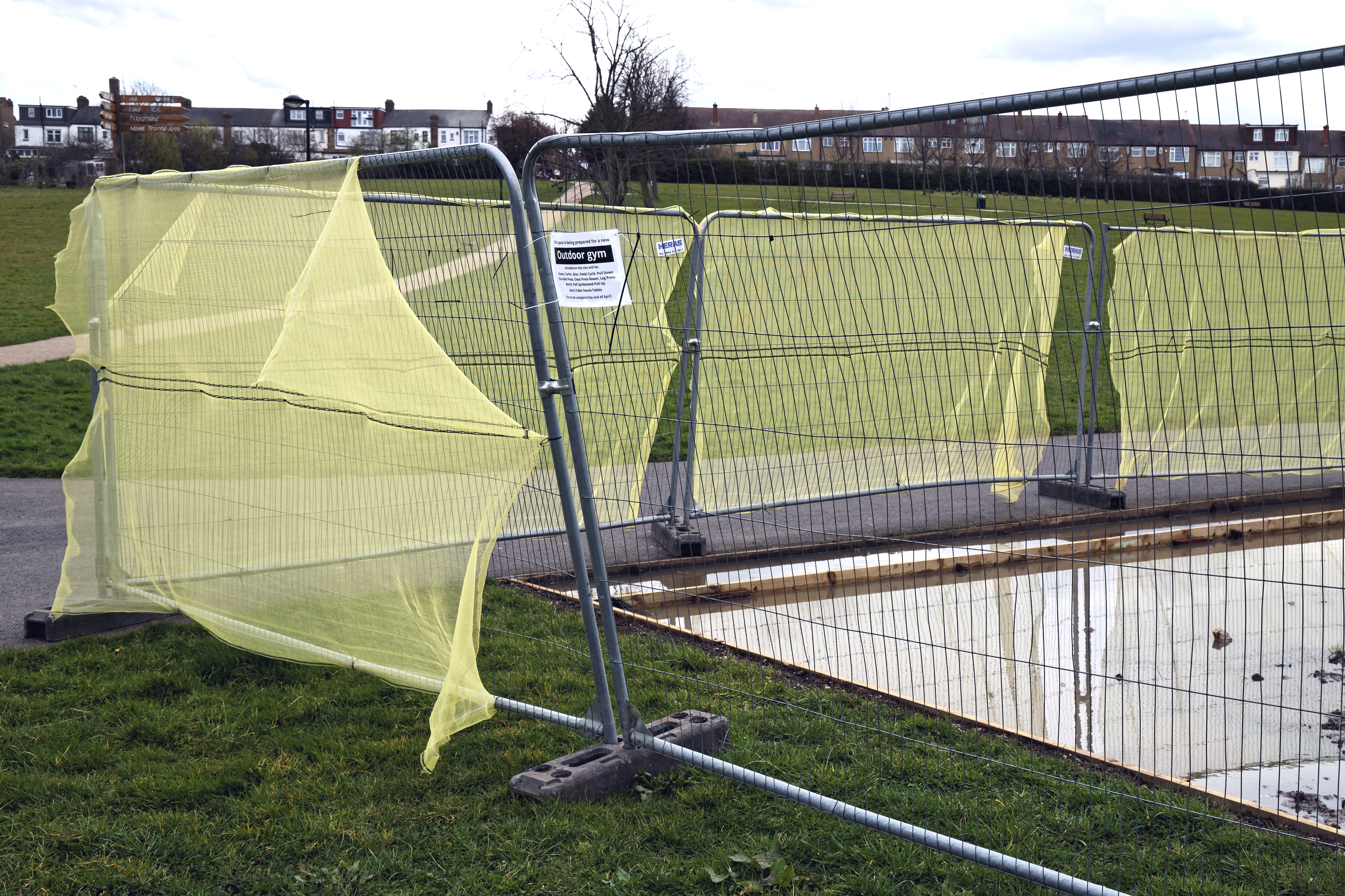 Mesh-clad Heras fence in Lordship Recreation Ground, Tottenham, London Borough of Haringey, England.Camera: Canon EOS 6D with Canon EF 24-105mm F4L IS USM lens.Software: large RAW file lens-corrected, optimized and downsized with DxO OpticsPro 10 Elite, Viewpoint 2, and Adobe Photoshop CS2.